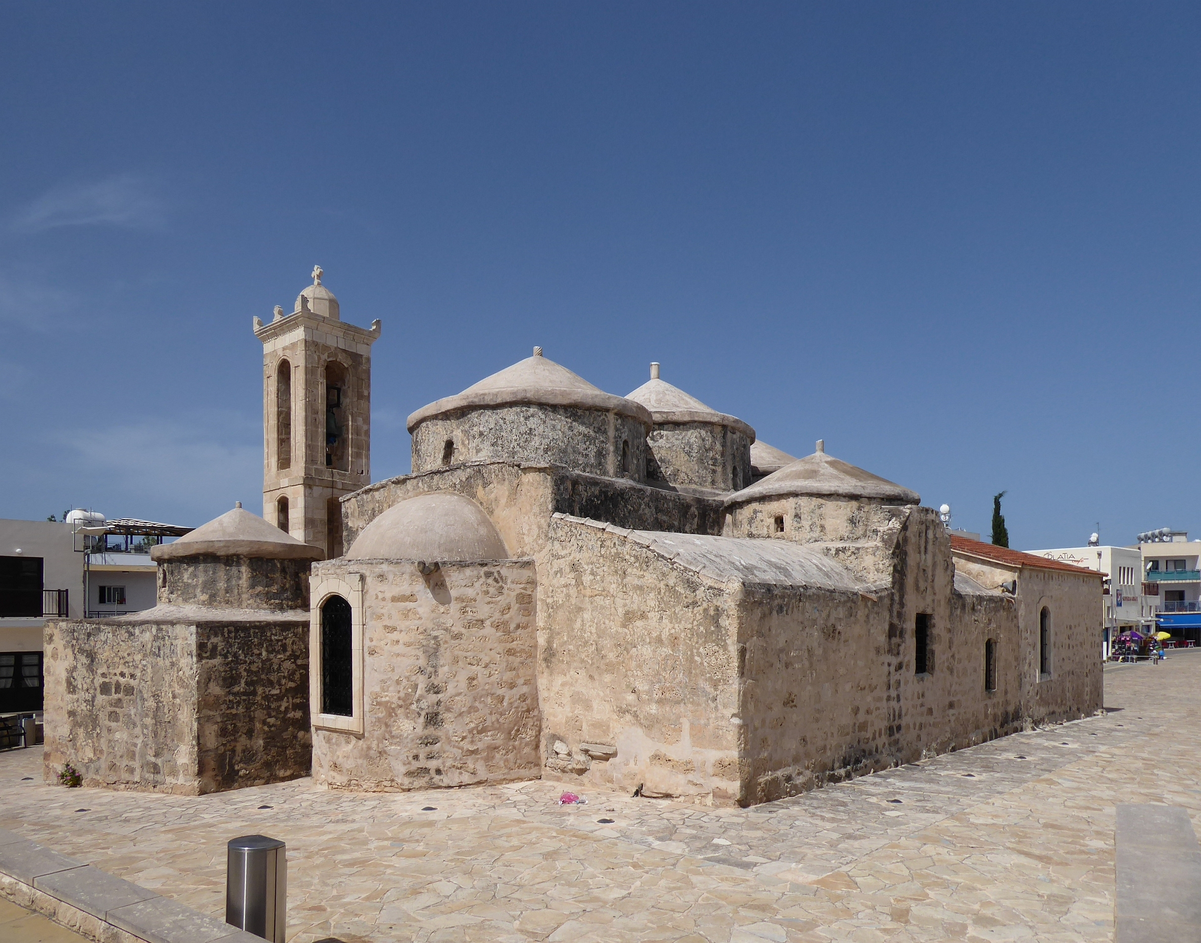 Yeroskipou - Agia Paraskevi